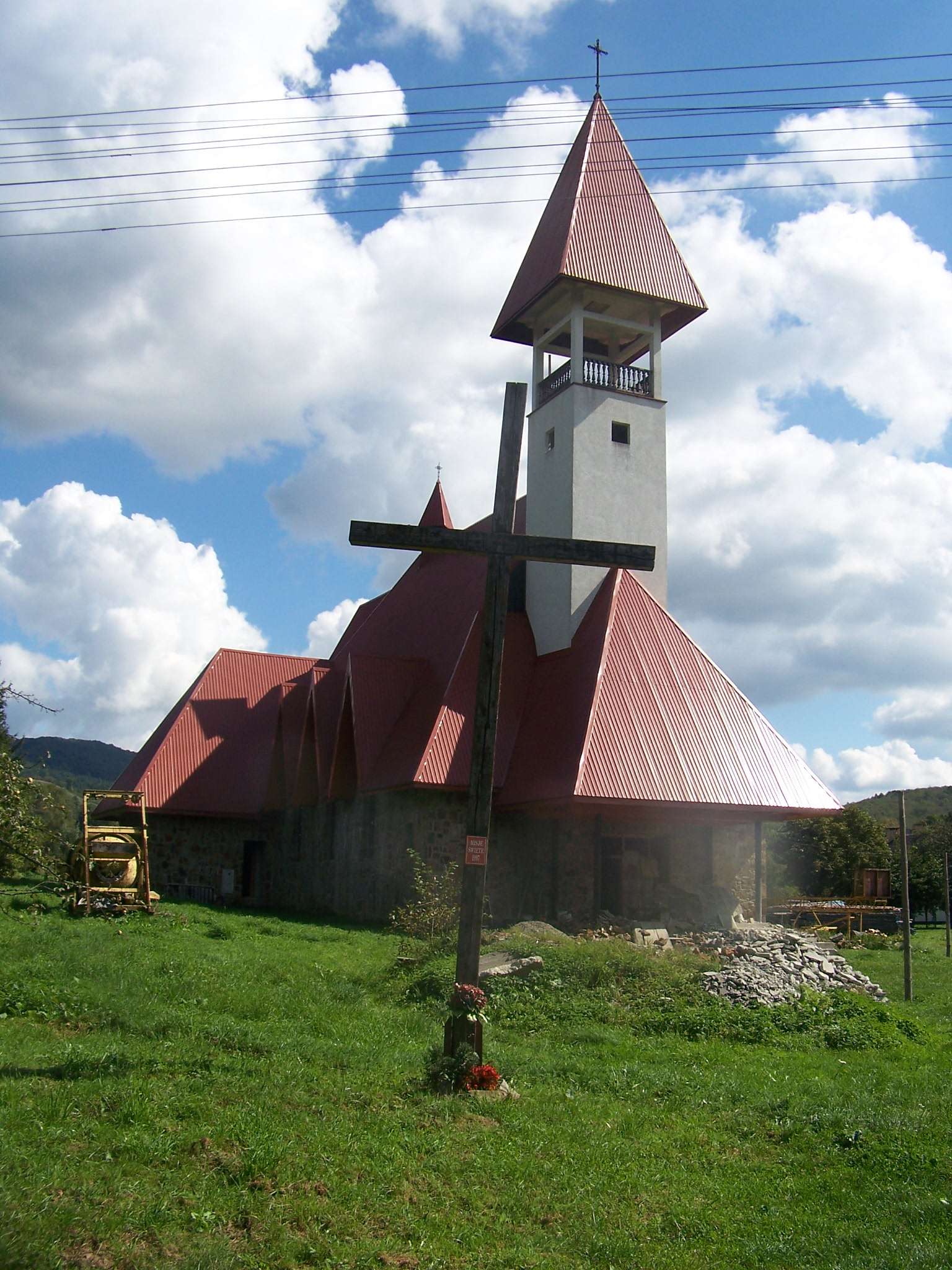 New church in Polana, Poland